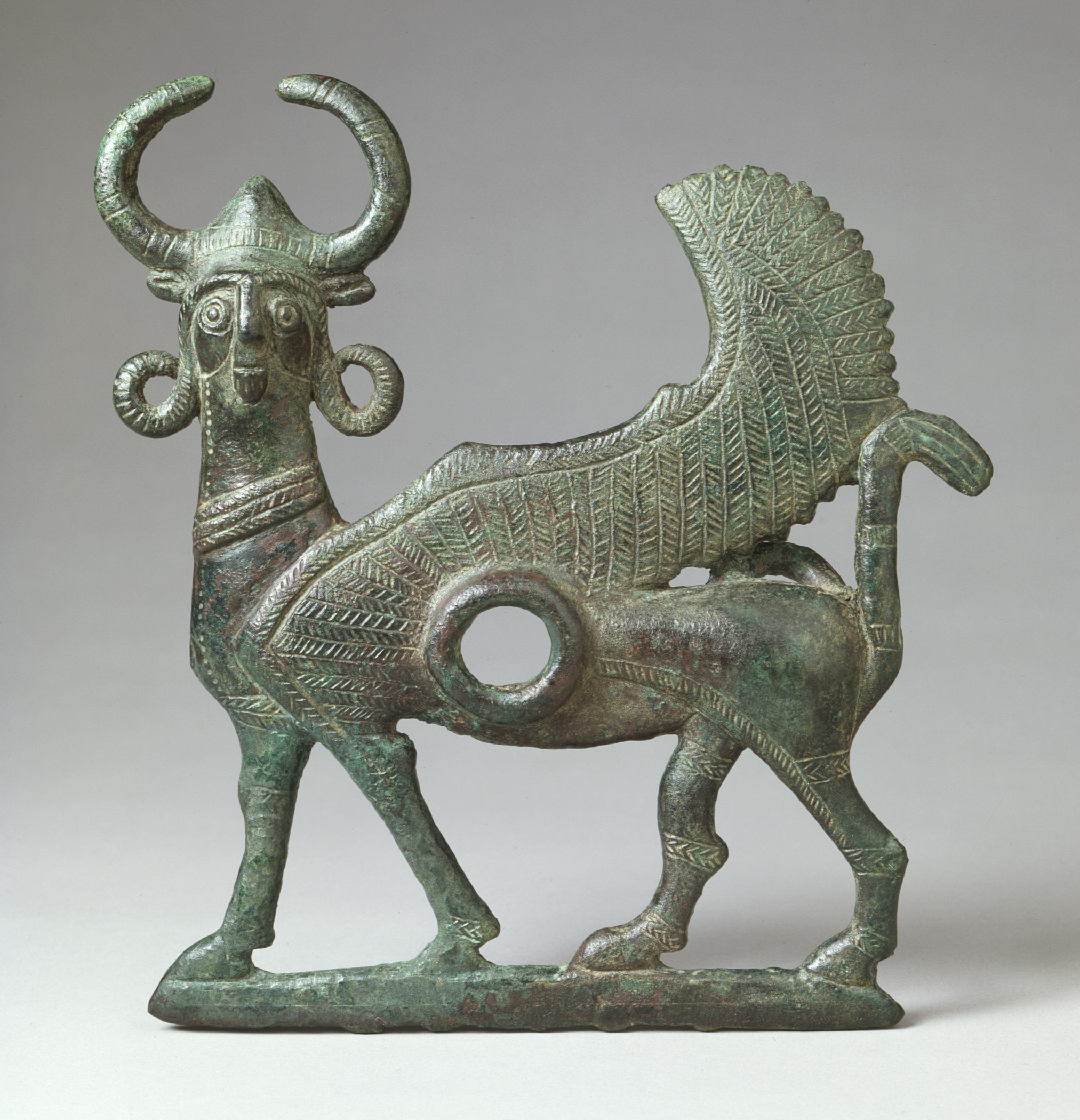 Iran, Bronze du Luristan, circa 1000-800 B.C. Tools and Equipment; horse trappings Bronze 7 1/4 x 6 1/2 in. (18.5 x 16.7 cm) The Nasli M. Heeramaneck Collection of Ancient Near Eastern and Central Asian Art, gift of The Ahmanson Foundation (M.76.97.99) Art of the Ancient Near East Currently on public view: Hammer Building, floor 3